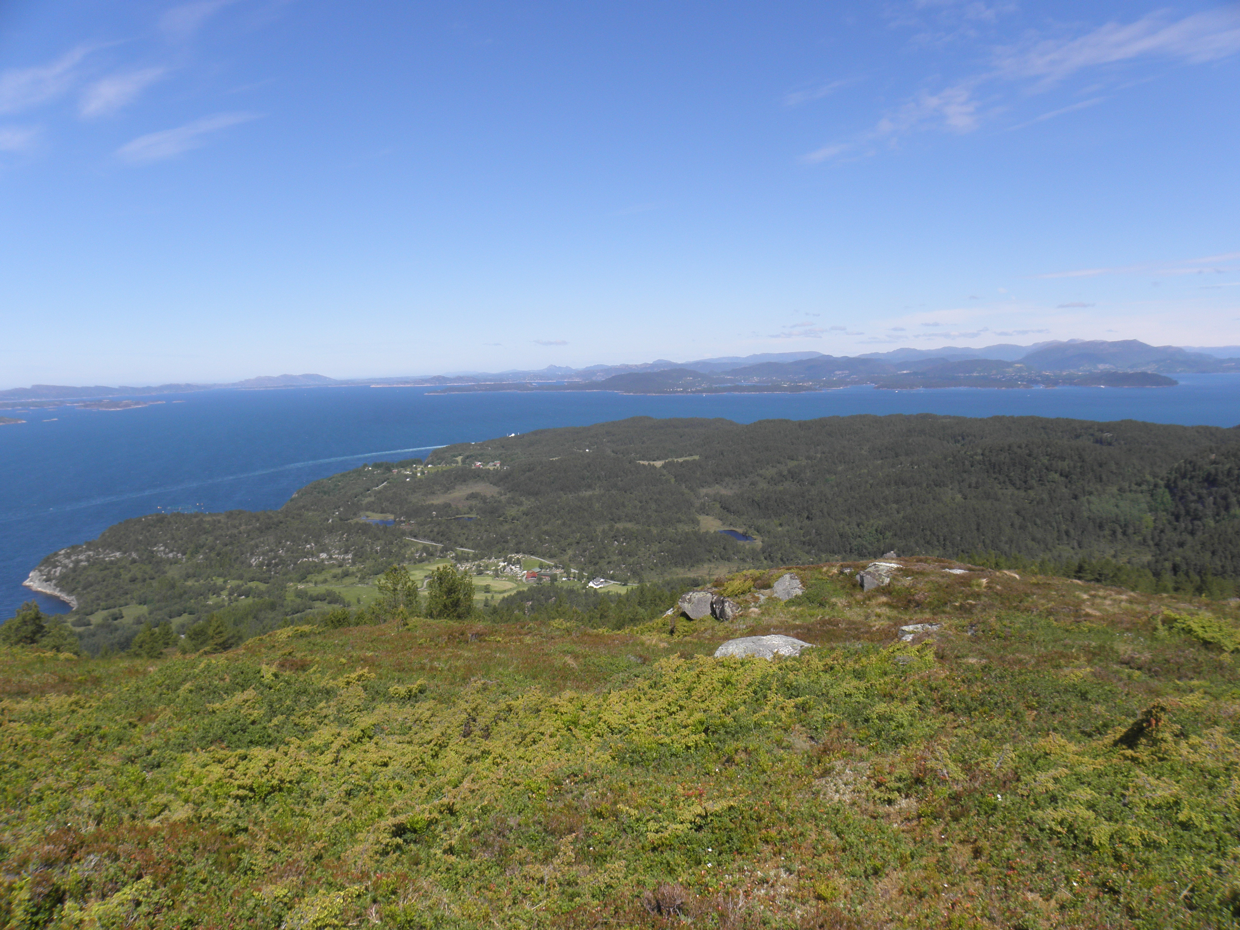 A photo taken from Gjøvågsvarden on the island of Reksteren, Tysnes, Hordaland, Norway. In the foreground, just below the mountain lies Gjøvag. Further in the distance lies Kaldafoss.